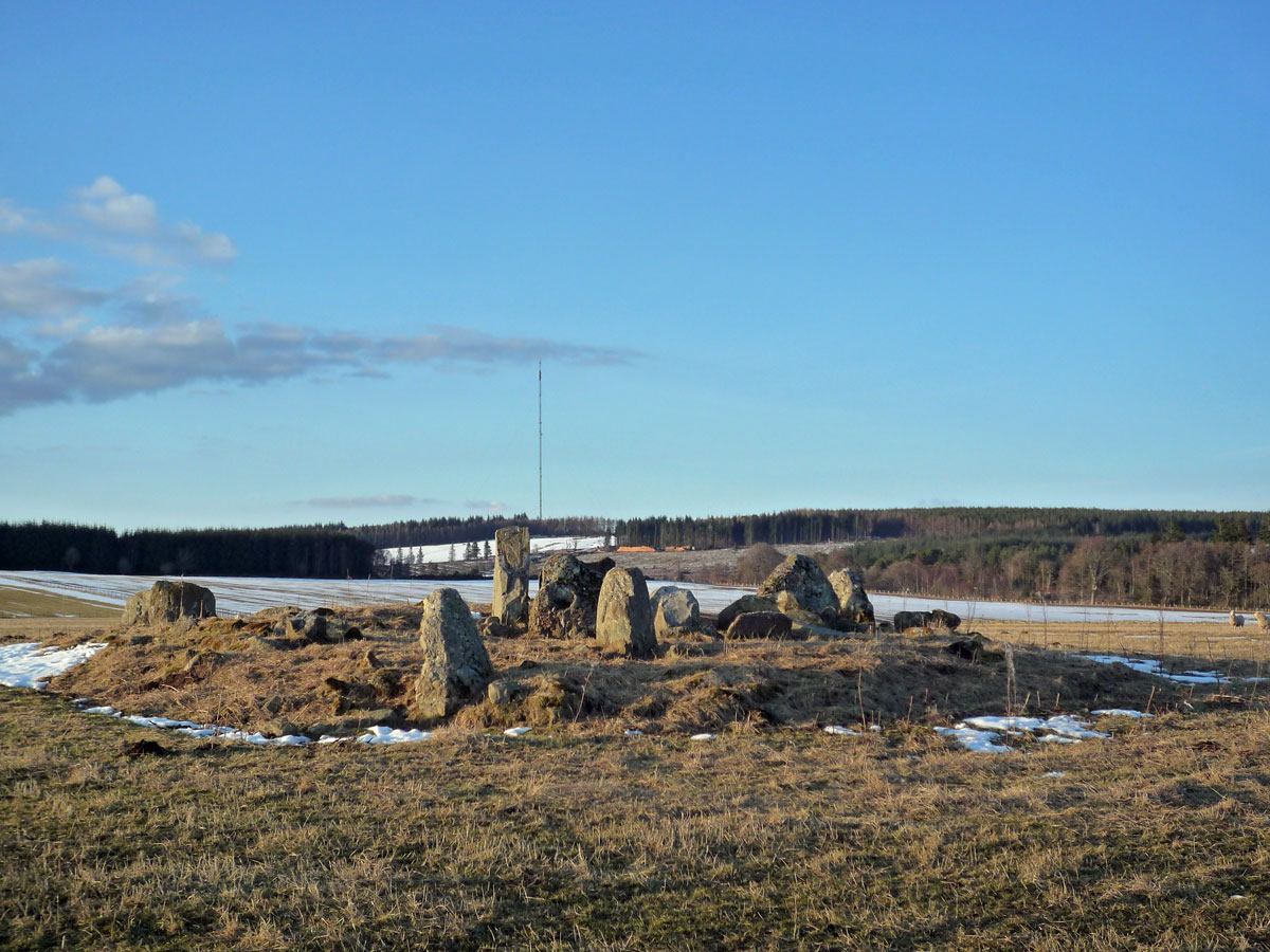 Belmaduthy Chambered Cairn According to the Royal Commission on the Ancient and Historical Monuments of Scotland this is a "robbed" Orkney/Cromarty type of Chambered Cairn. Behind the structure is the radio transmitting mast that is visible from miles away.